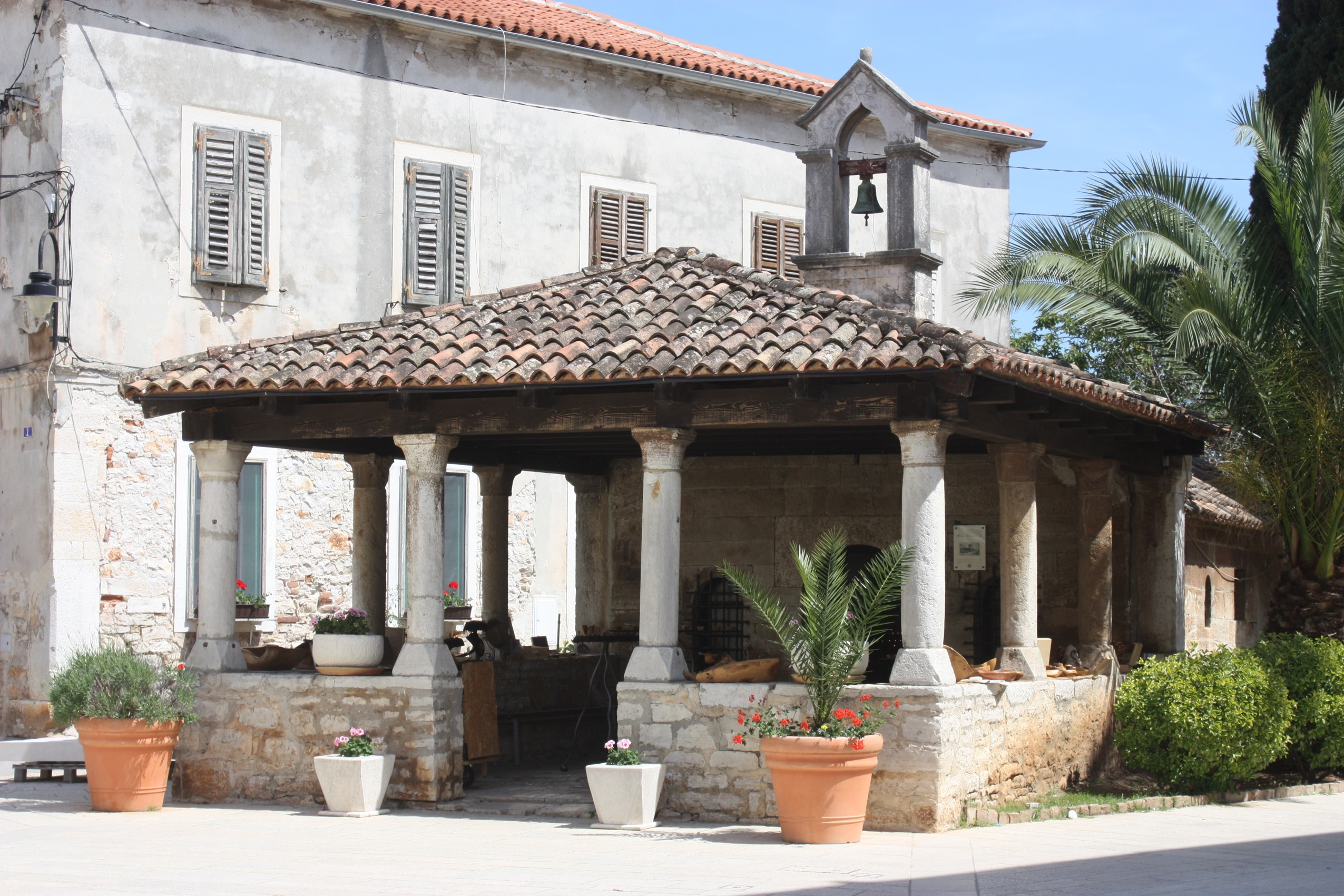 Fažana, the Church of the Lady of Mount Carmel